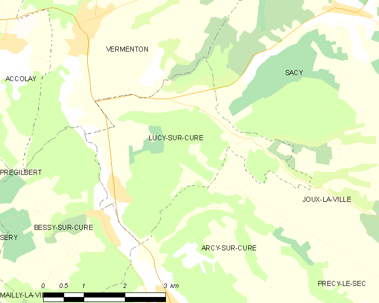 Map of French municipality Lucy-sur-Cure